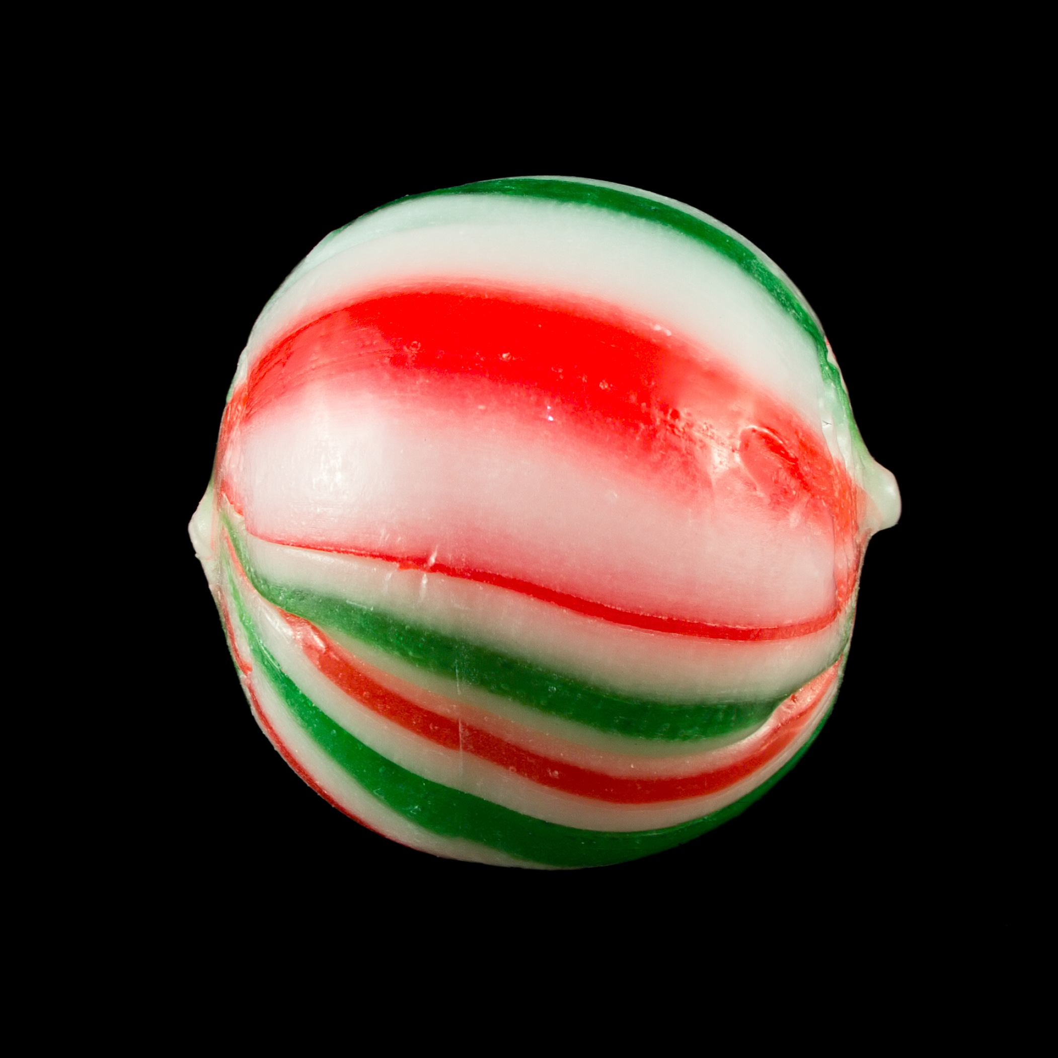 Christmas Starlight Candy from Dollarama, Canada 2015-05-24. Focus stack of 3 images.